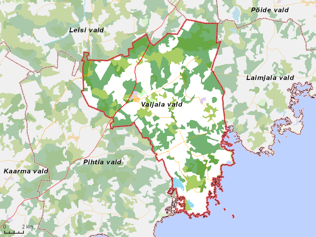 Map of municipality in Estonia